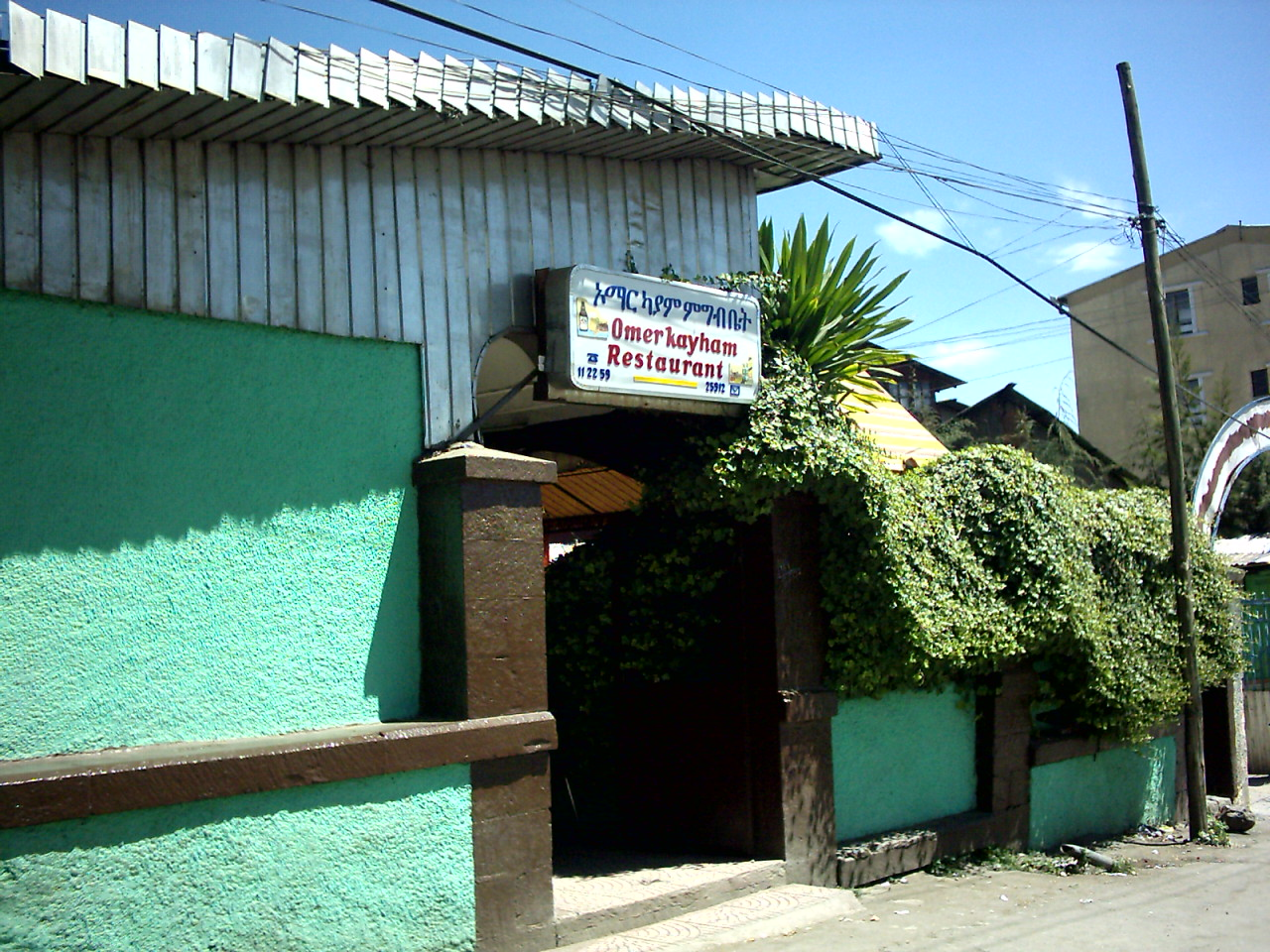 تصویر رستوران خیام در آدیس آبابا در کشور اتیوپی